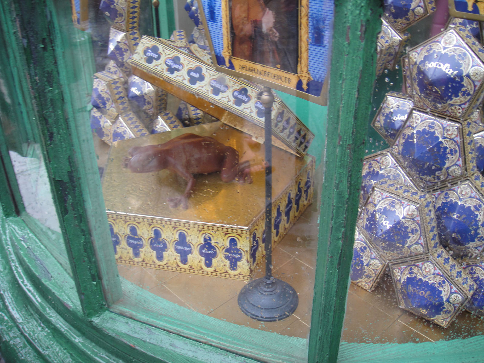 Wizarding World of Harry Potter - chocolate frog in the window of Honeydukes Sweets Shop